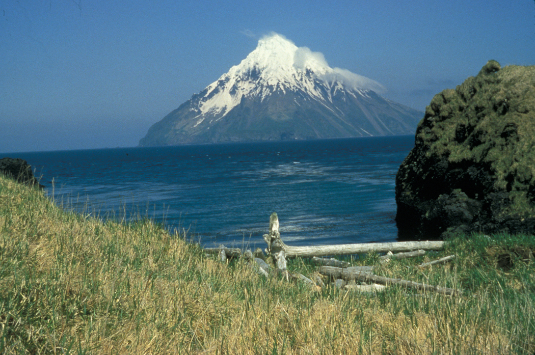 A photo of Chagulak Island